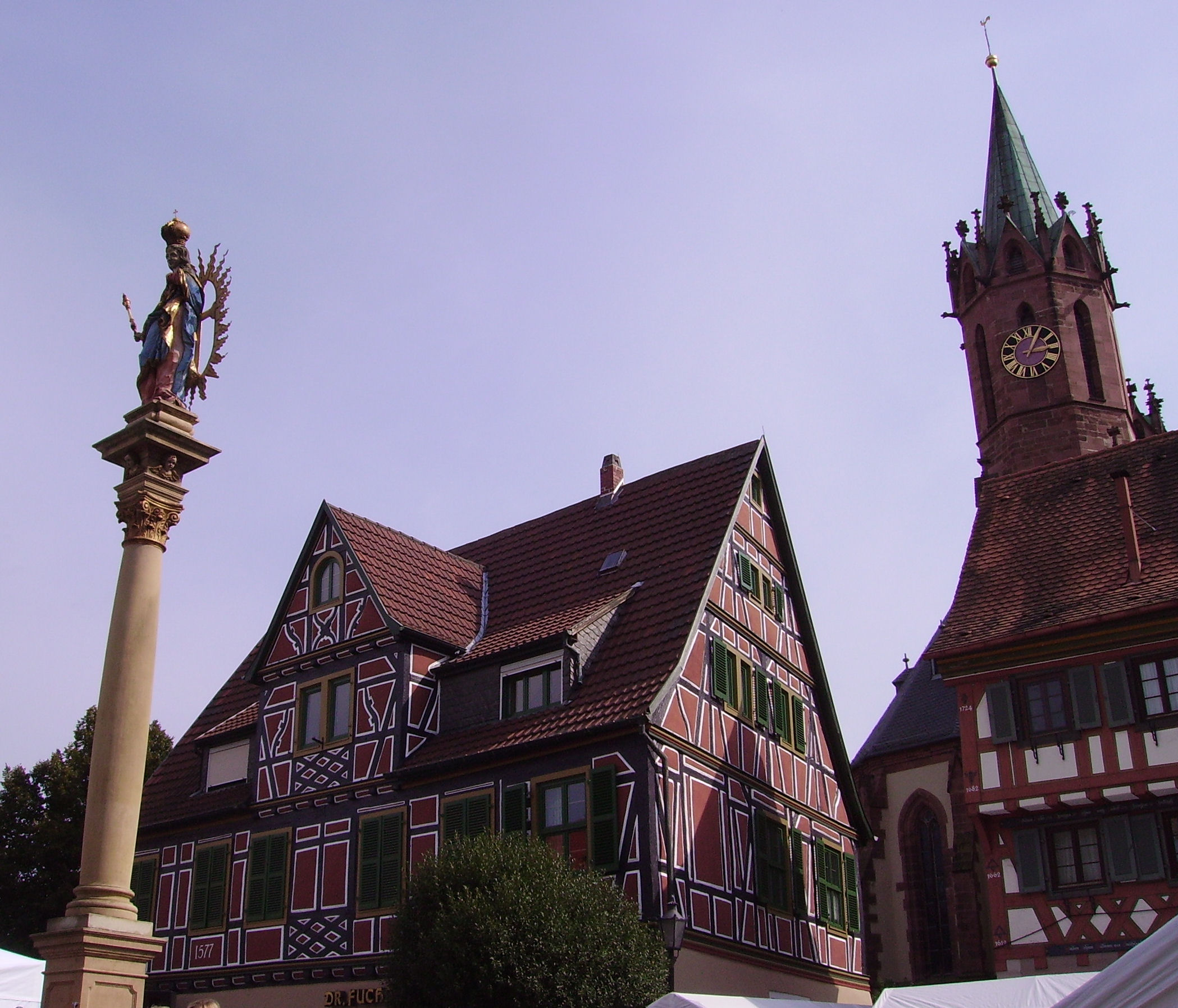 historic town of Ladenburg near Heidelberg, Germany